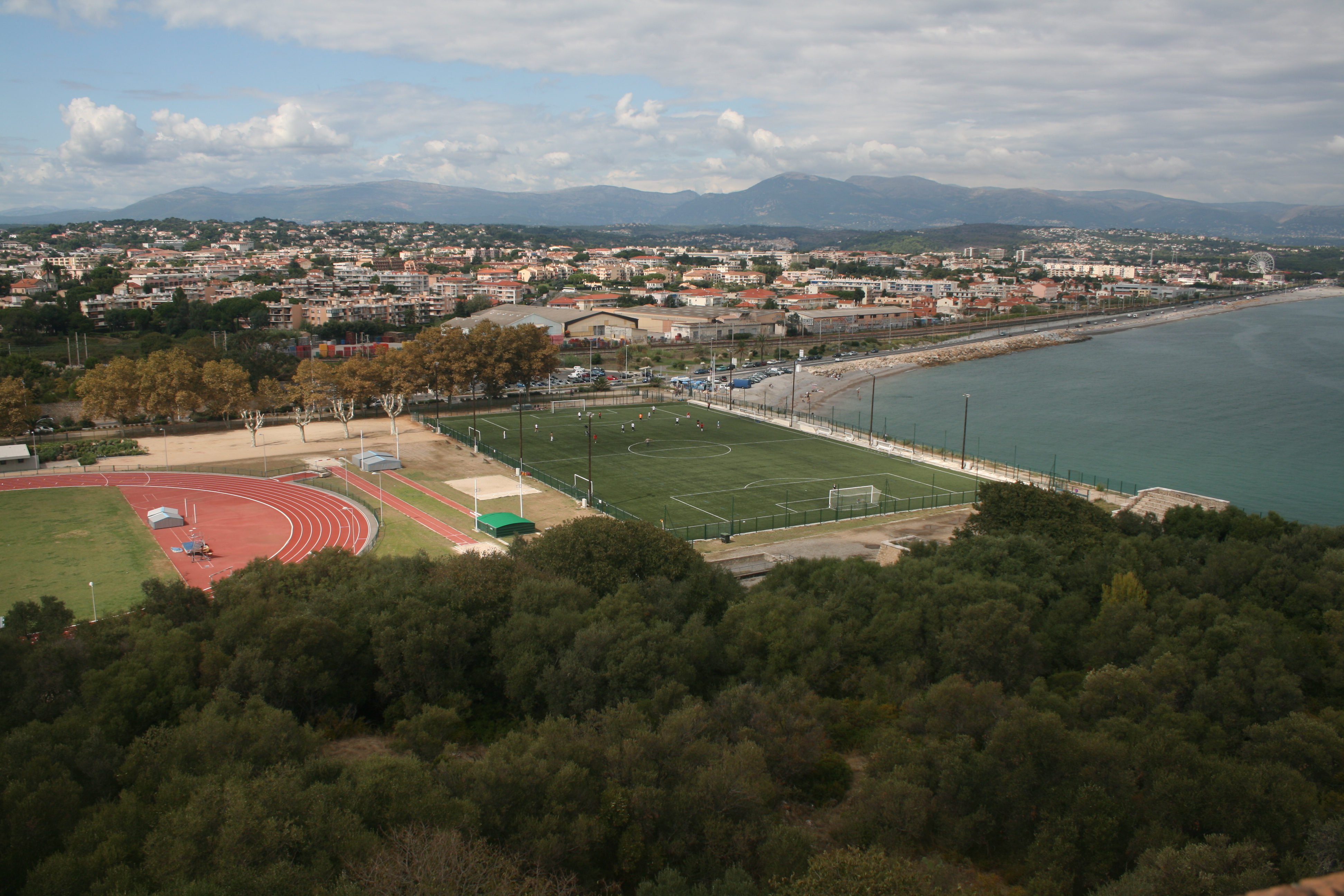 Stade du Fort Carré, as seen from the Fort Carré, in Antibes, France.